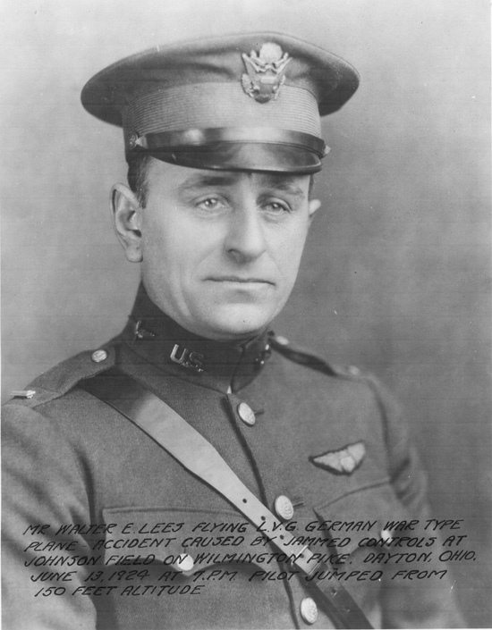 Catalog #: BIOL00554 Last Name: Lees First Name: Walter Notes: Repository: San Diego Air and Space Museum Archive